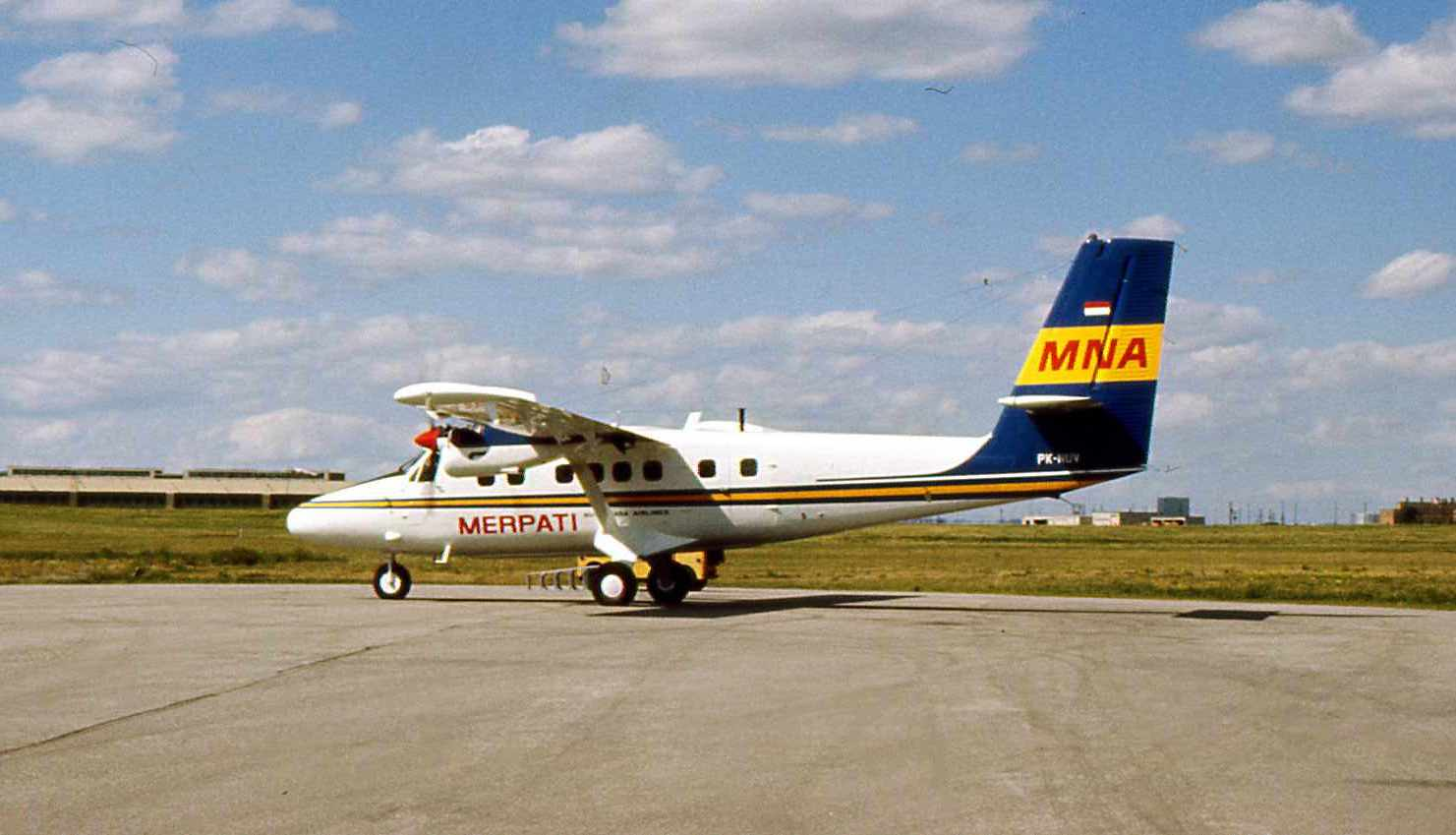 Canada, Downsview Airport. Merpati Nusantara Airlines de Havilland Canada DHC-6 Twin Otter PK-NUV at de Havilland Canada plant in Downsview before delivery.